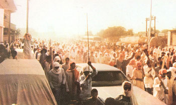 Demonstrators in Safwa City during the November 1979 unrest in Eastern Province, Saudi Arabia.